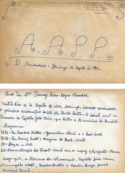 First birthday invitation of the history of Ponte Preta Athletic Association in 1901.